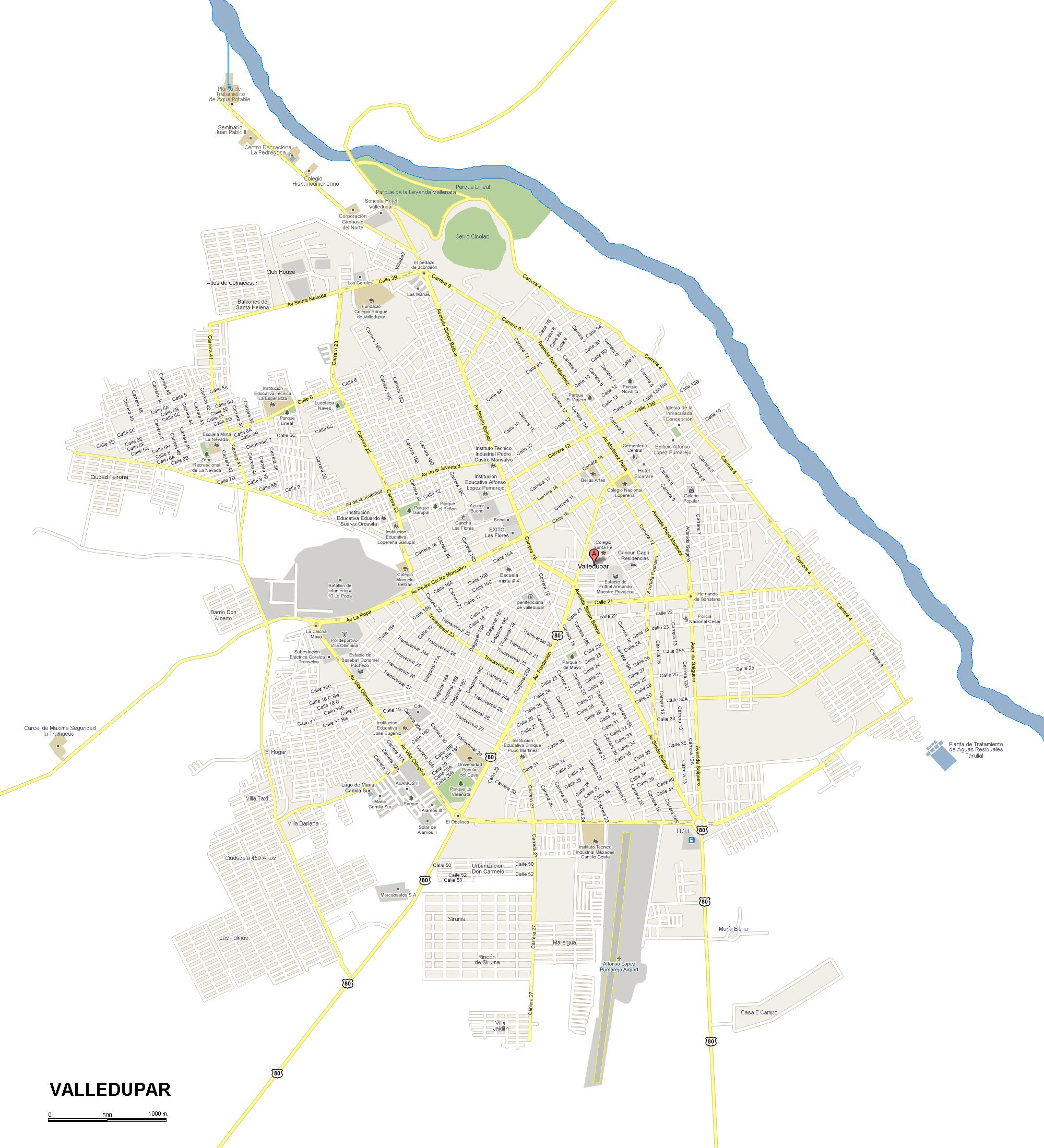 Map of Valledupar, Colombia